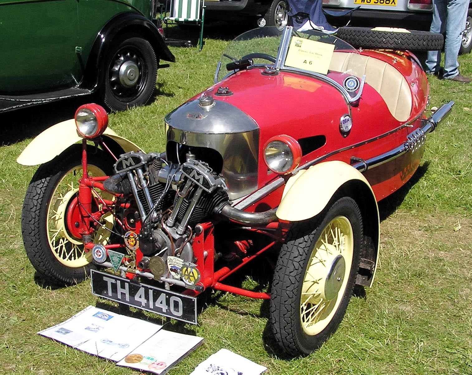 1934 Morgan Super Sports at Bristol Car Show, The Downs, Bristol, England.